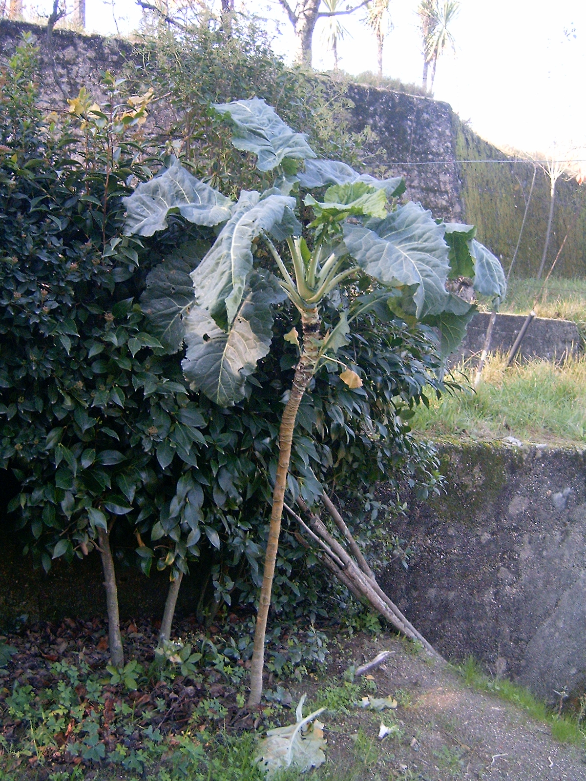 Couve-galega (ex. Brassica oleracea var. acephala DC.) is the Portuguese kale in Brassica oleracea Collard Group. Photo by: Manuel Anastácio